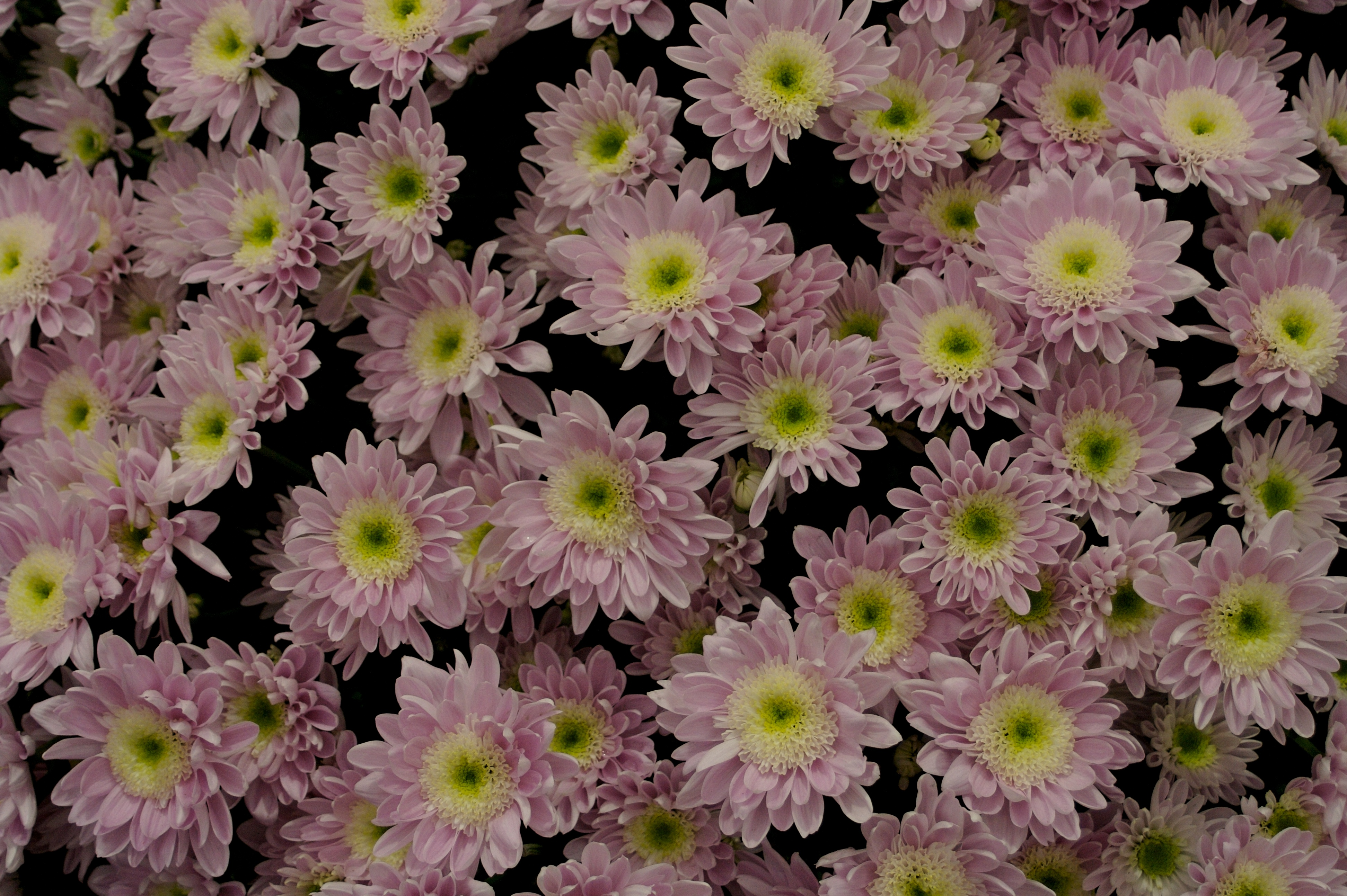 Chrysanthemum Mona Lisa Pink. Taken during Tatton Park Flower Show 2009